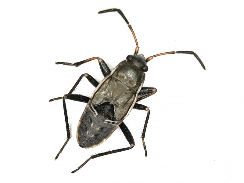 Rhyparochromus vulgaris (Lygaeidae) - (nymph), Arnhem - Meinerswijk - Centraal, the Netherlands